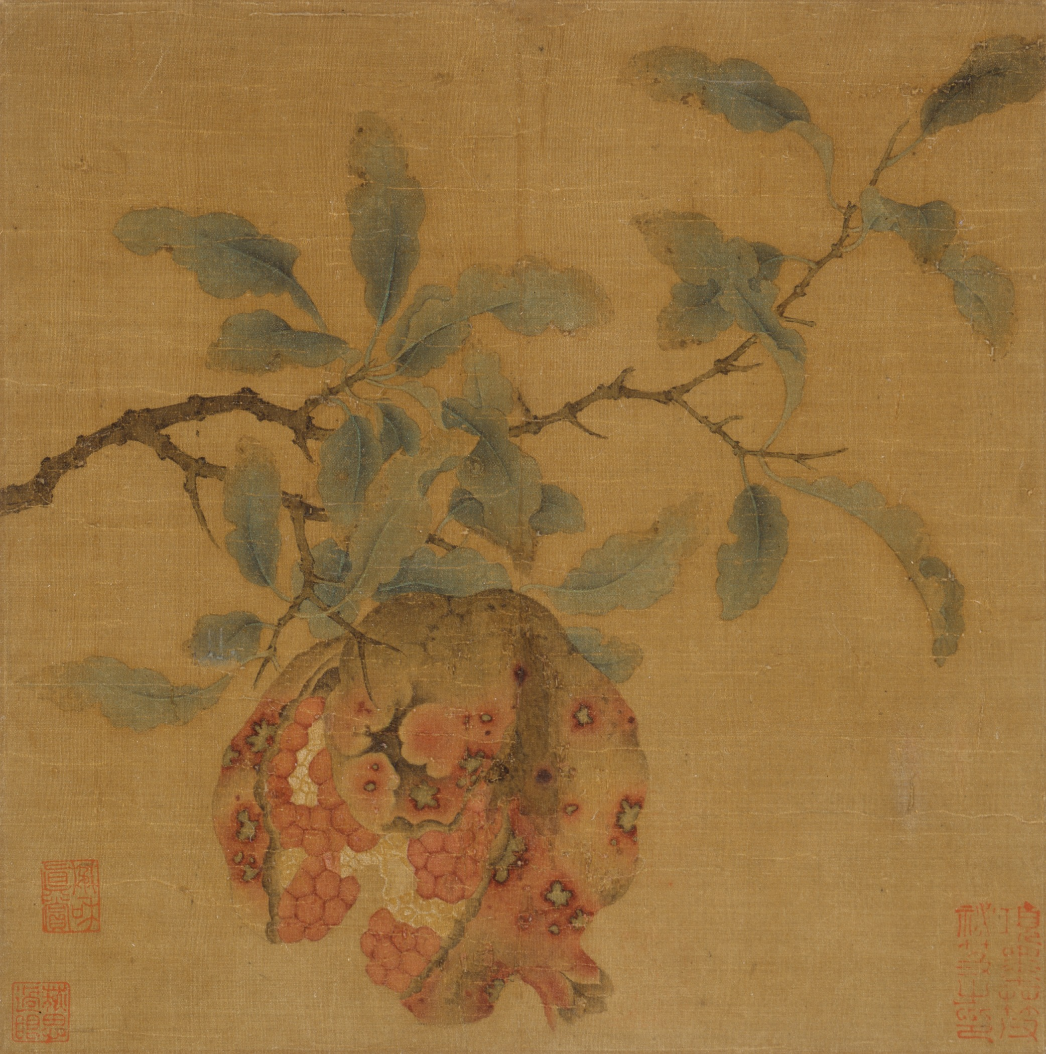 China, Late Southern Song dynasty, or early Yuan dynasty, about 1200-1340 Paintings Album leaf, ink and color on silk Gift of Caroline and Jarred Morse (M.81.61.5) Chinese Art